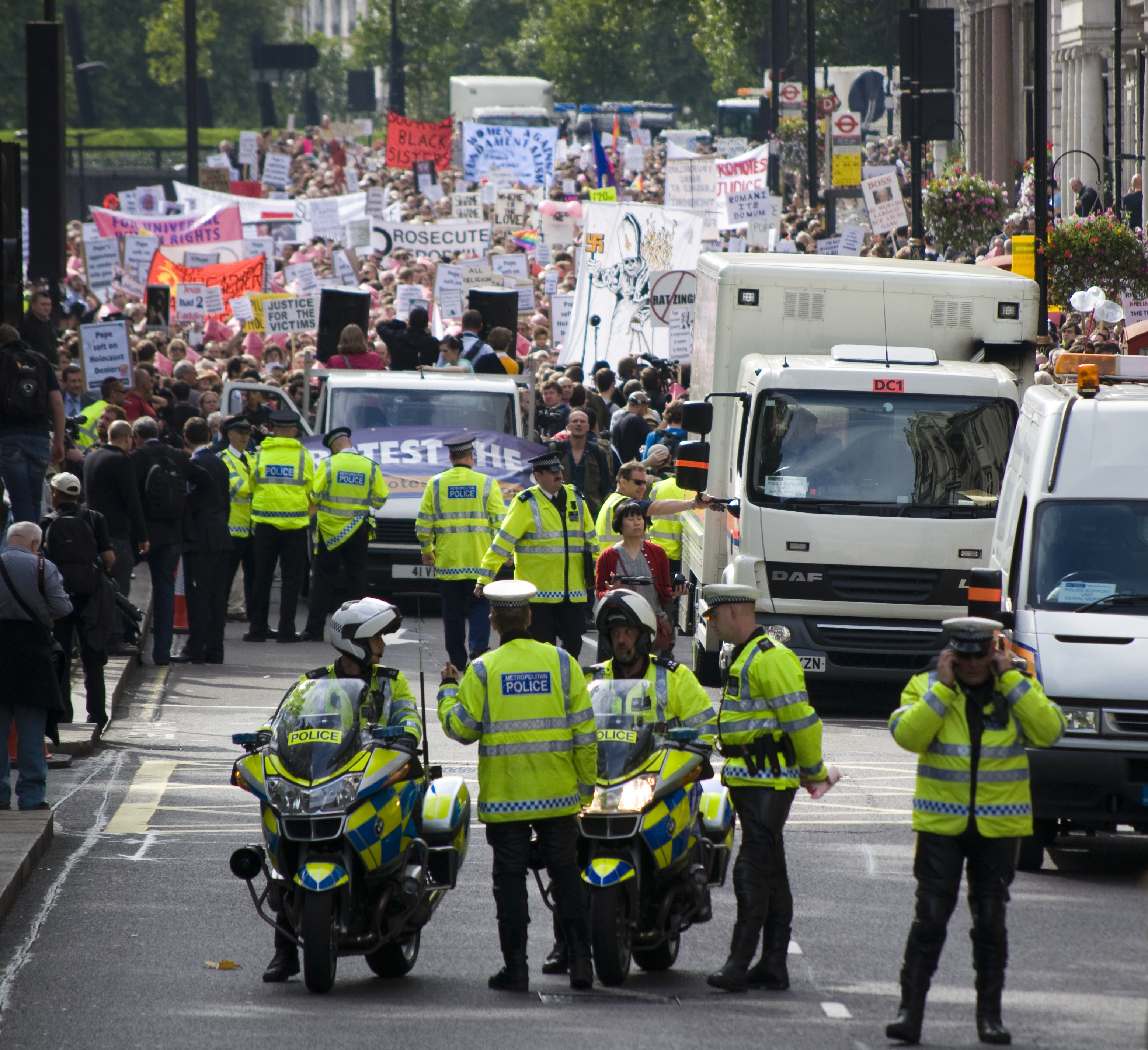 Police set up around the Protest the Pope rally.